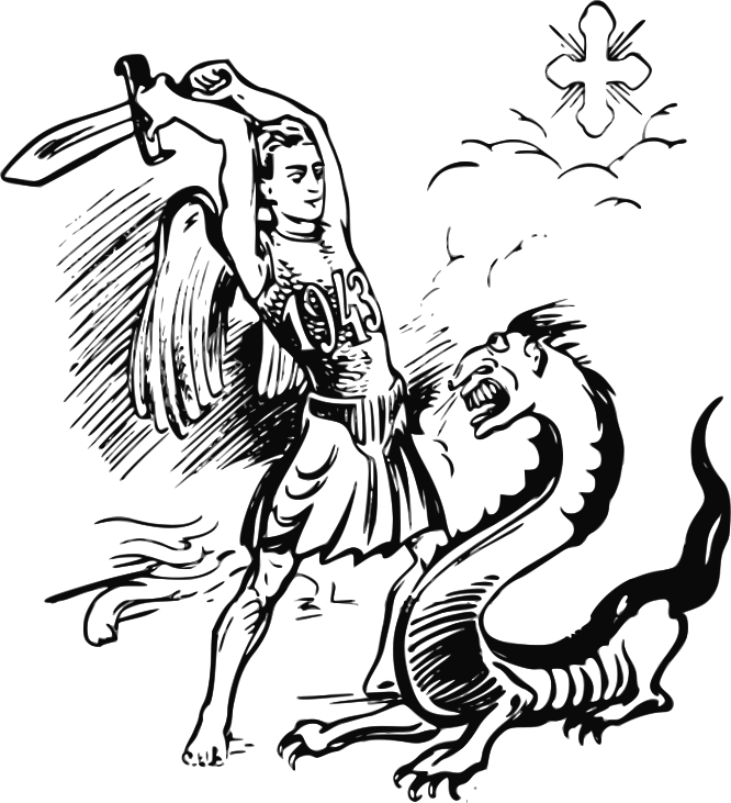 The New Year Will Bring Us Victory, from the newspaper Molva, put out by and for Russian speakers in Odessa under the Romanian occupation (Transnistrian Governorate). The New Year, 1943, vanquishing a dragon that represents the Soviet Union; as summarized by by Oleksandr Maievsky (p. 92): "The author portrayed Michael the Archangel with a sword over the head of a hideous mythical creature with distinct Semitic features, and a sparkling Orthodox cross above the clouds."